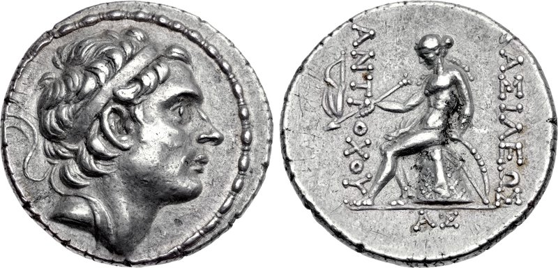 SELEUKID KINGS of SYRIA. Antiochos III ‘the Great’. 222-187 BC. AR Tetradrachm (29mm, 17.01 g, 12h). Antioch mint. Struck circa 204-197 BC. Diademed head right / Apollo Delphios seated left on omphalos, testing arrow, hand on bow; bow in bowcase to outer left, AΣ in exergue. SC 1044.5b (this coin referenced); Le Rider, Antioche 178 (A13/P134 – this coin); HGC 9, 447u. EF, toned. Attractive portrait. Ex Elsen 91 (24 March 2007), lot 116; Numismatic Fine Arts XXIX (13 August 1992), lot 170; Numismatic Fine Arts VI (27 Februrary 1979), lot 371.